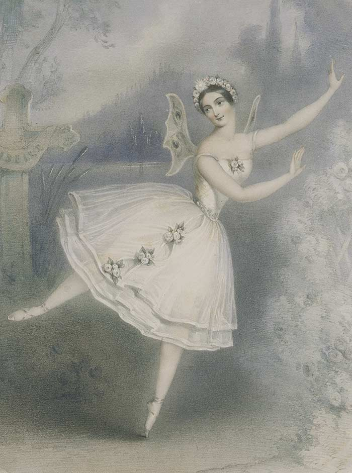 Lithograph by unknown of the ballerina Carlotta Grisi in Giselle. Paris, 1841. Image was scanned from the book The Romantic Ballet in Paris by Ivor Guest.